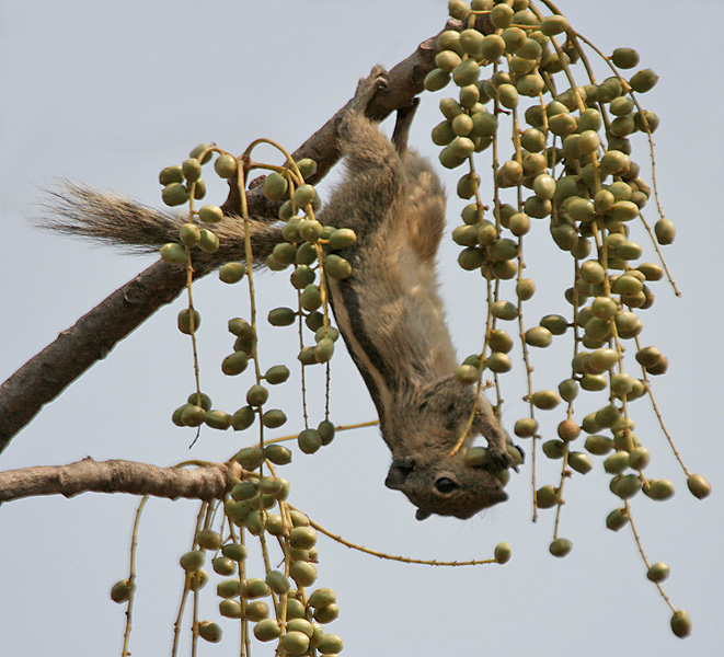 Indian Palm Squirrel or Three-Striped Palm Squirrel Funambulus palmarum at Deer Park in Shamirpet, Rangareddy district, Andhra Pradesh, India.